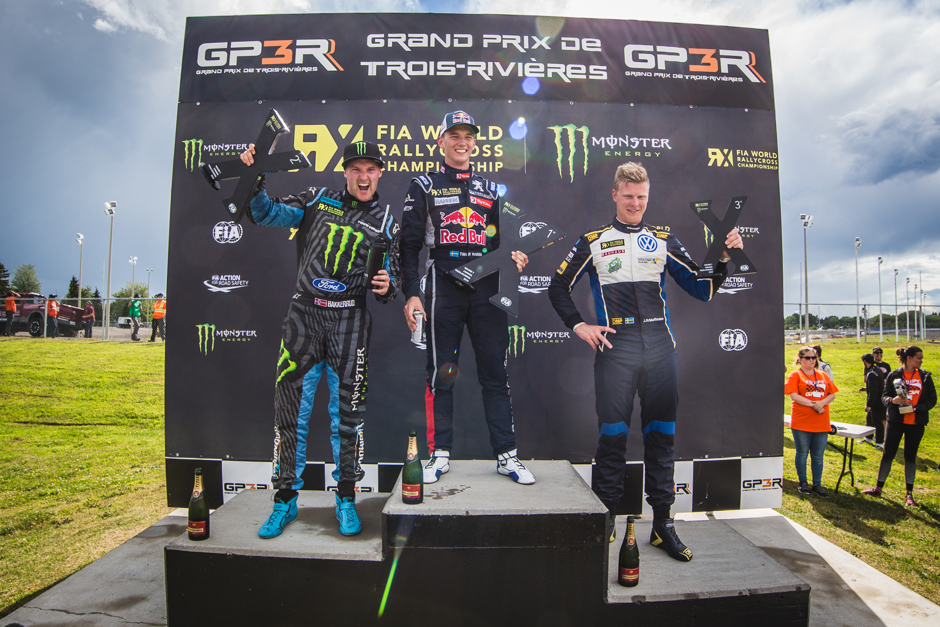 Round 7of the FIA World Rallycross Championship at Circuit Trois-Rivières, Quebec, Canada.